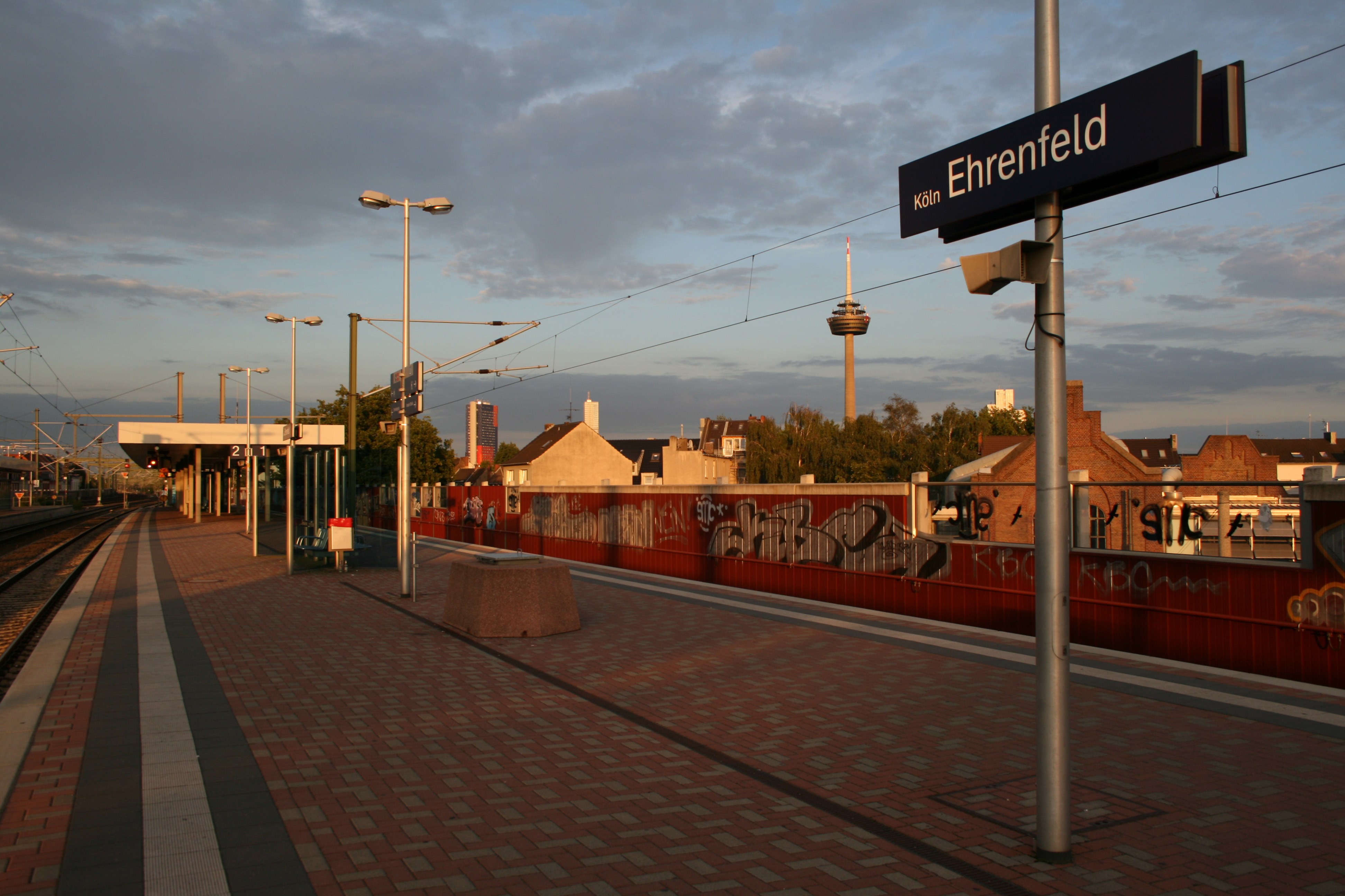 Station Cologne Ehrenfeld